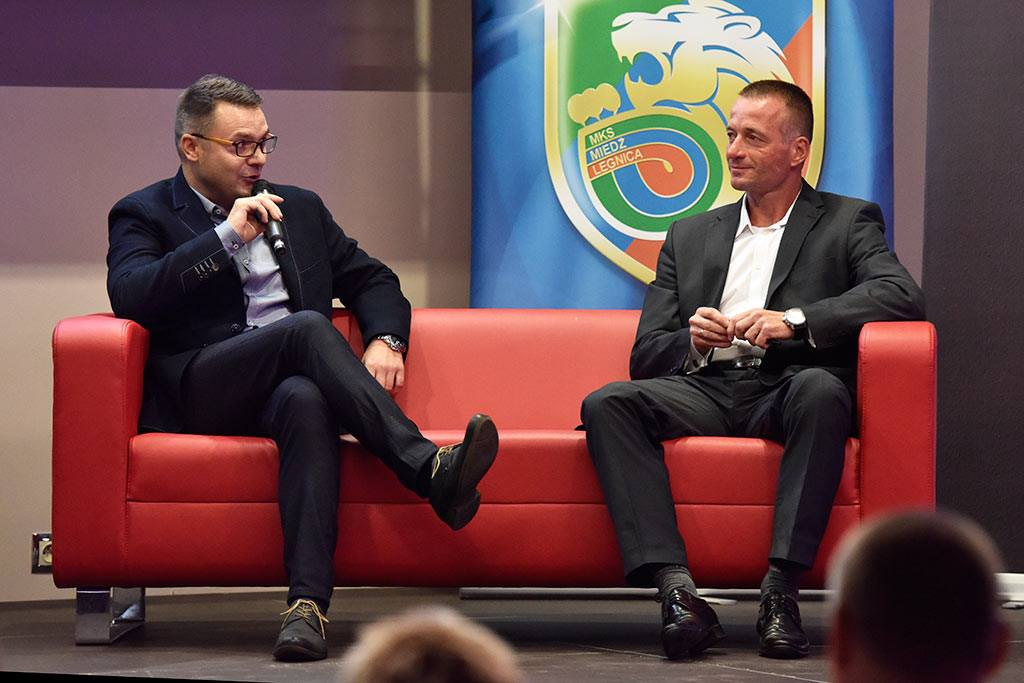 Wojciech Górski - Polish football coach (Miedź Legnica Football Academy) & Maciej Matwiej - Author biography Wojciech Górski